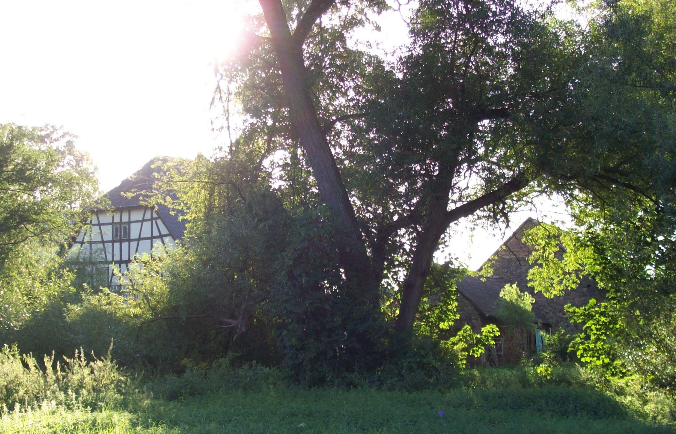 The mill "Kasmühle" in the north of Offenbach-Bieber, Germany.